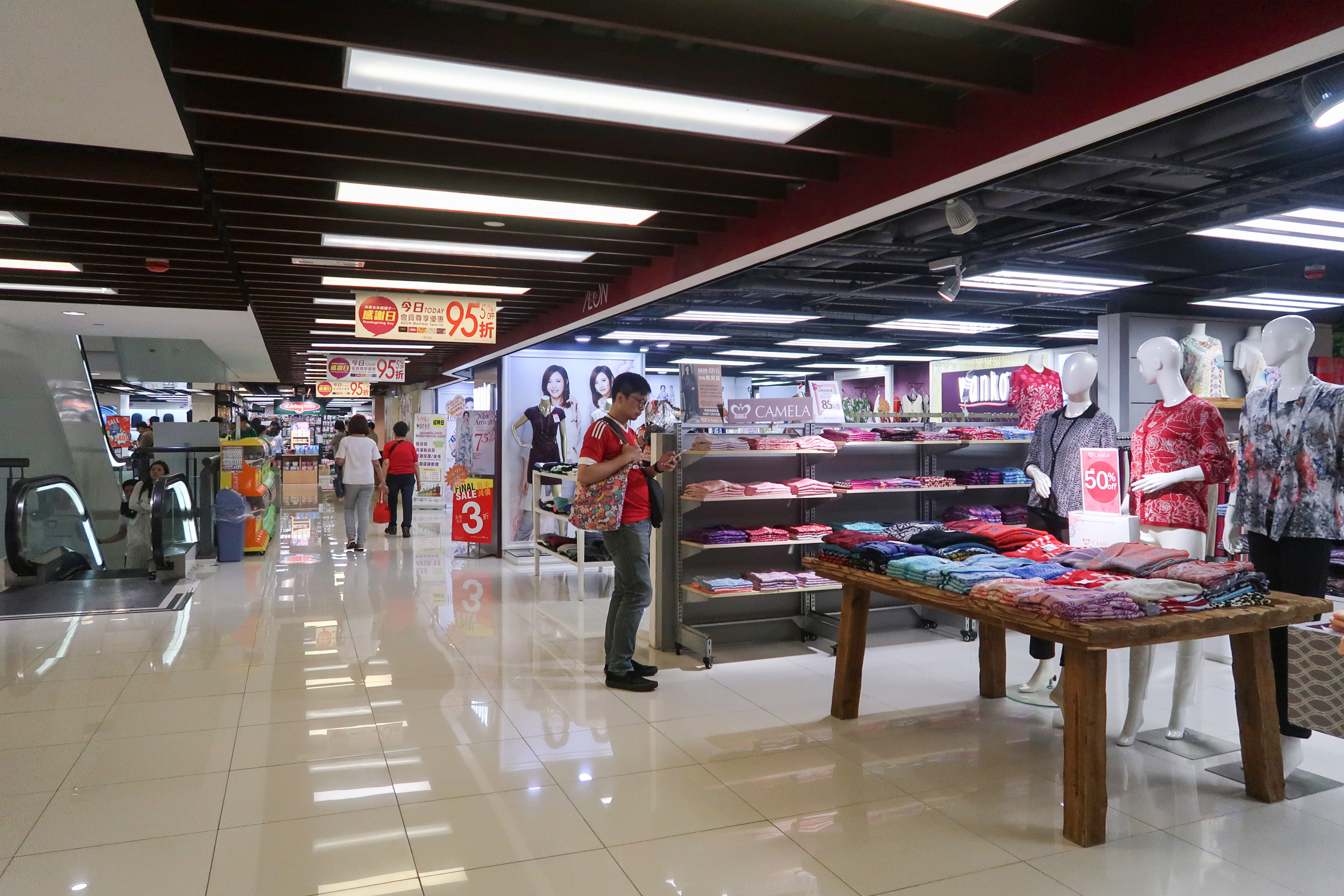 Kowloon City Plaza AEON